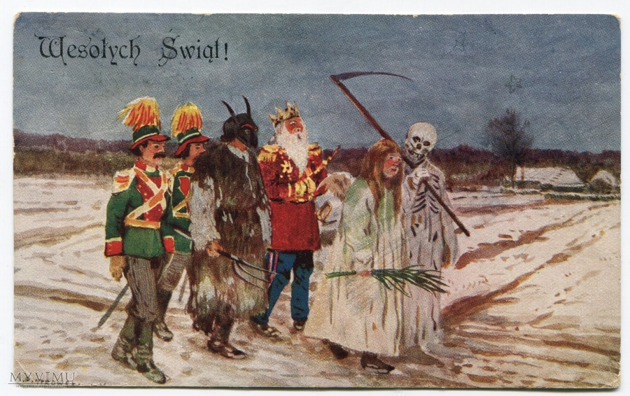 carol singers in Poland, (Christmas) carollers or carolers in Poland